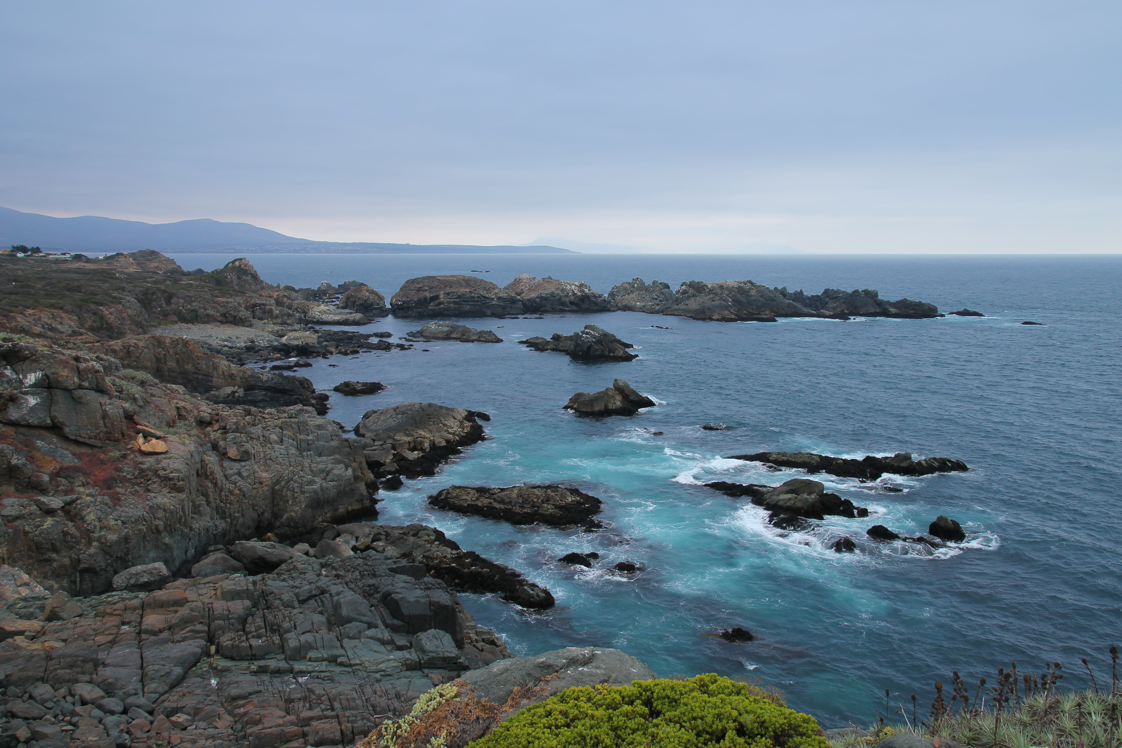 Puquén Natural reserve, Los Molles, La Ligua